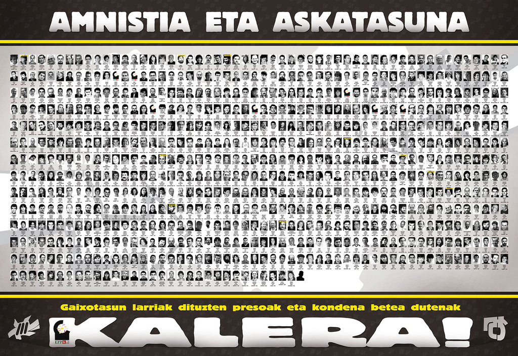 Basque Political Prisoners Group in 2008 (733 people).